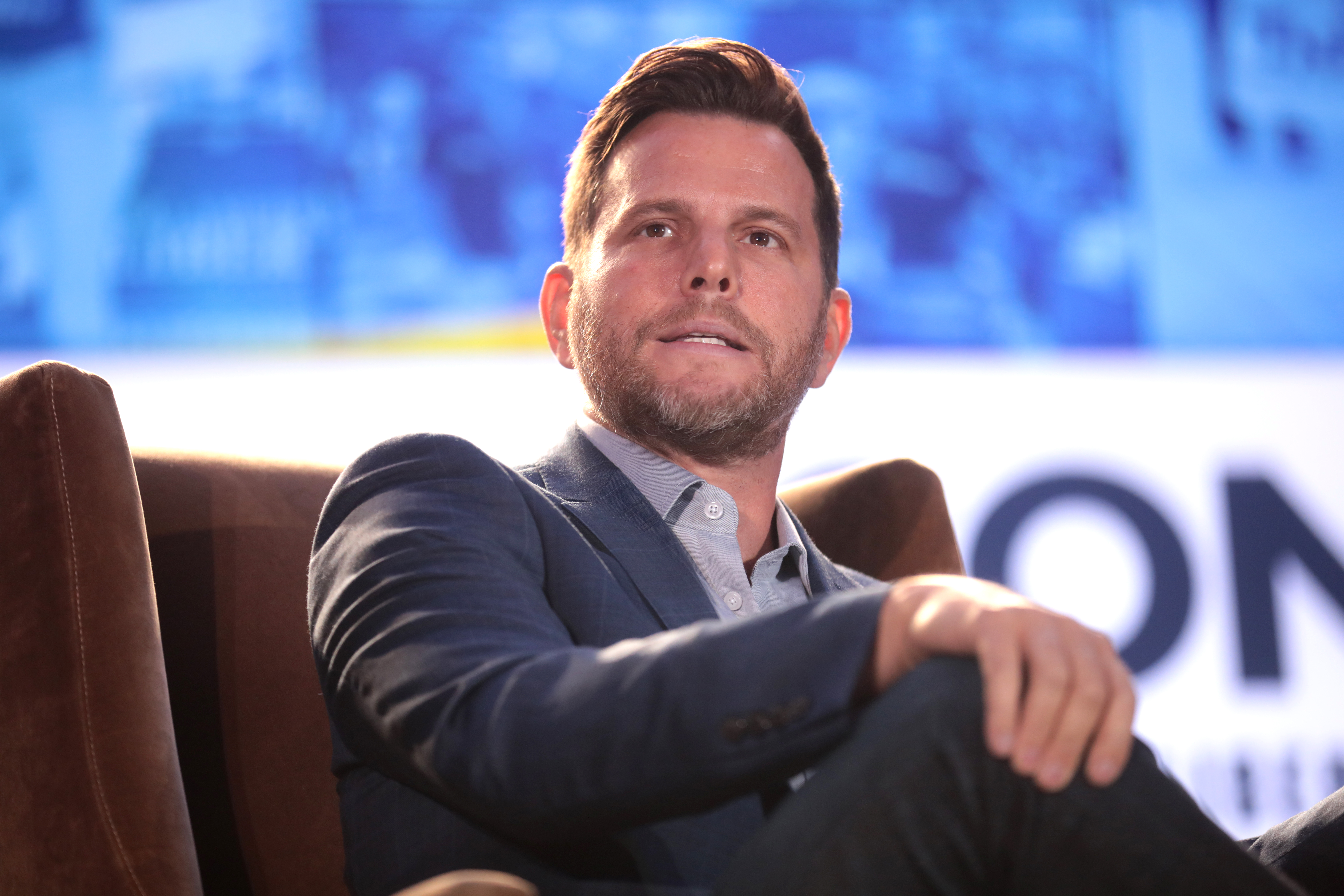 Dave Rubin speaking with attendees at the 2019 Young Americans for Liberty Convention at the Sheraton Austin Hotel at the Capitol in Austin, Texas.